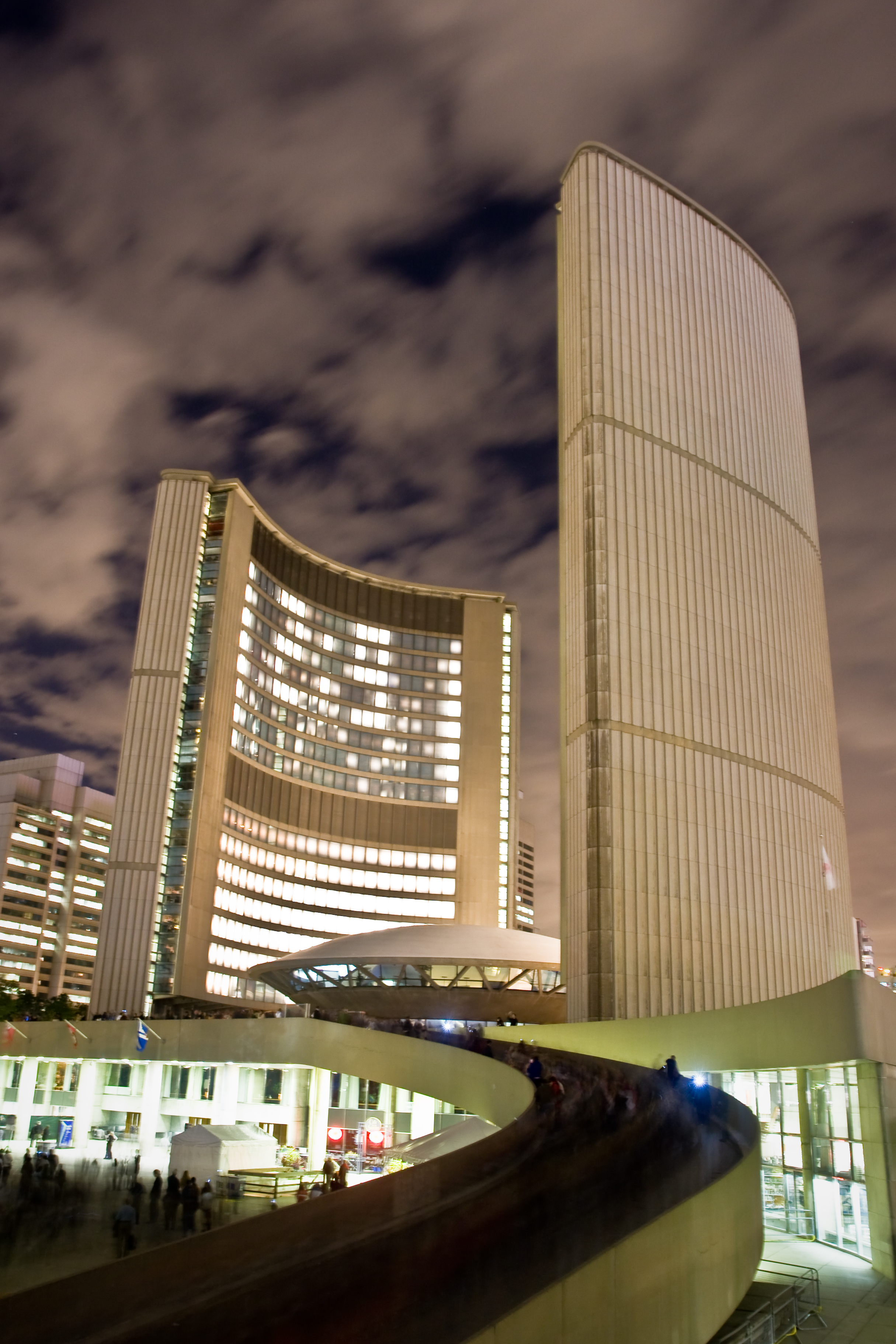 Toronto's City Hall during Nuit Blanche 2008 The City Hall's windows were transformed into a giant display screen by arranging lights behind all the windows of the building. It was called Stereoscope by the German group Project Blinkenlights. When we got there, they were showing the video games Pong and Tetris on the windows, but you can't really see it in this picture because this was a long exposure and it just became one big blurred mess of Pong and Tetris. Oh and yay for light pollution which makes the sky all lit up! lol